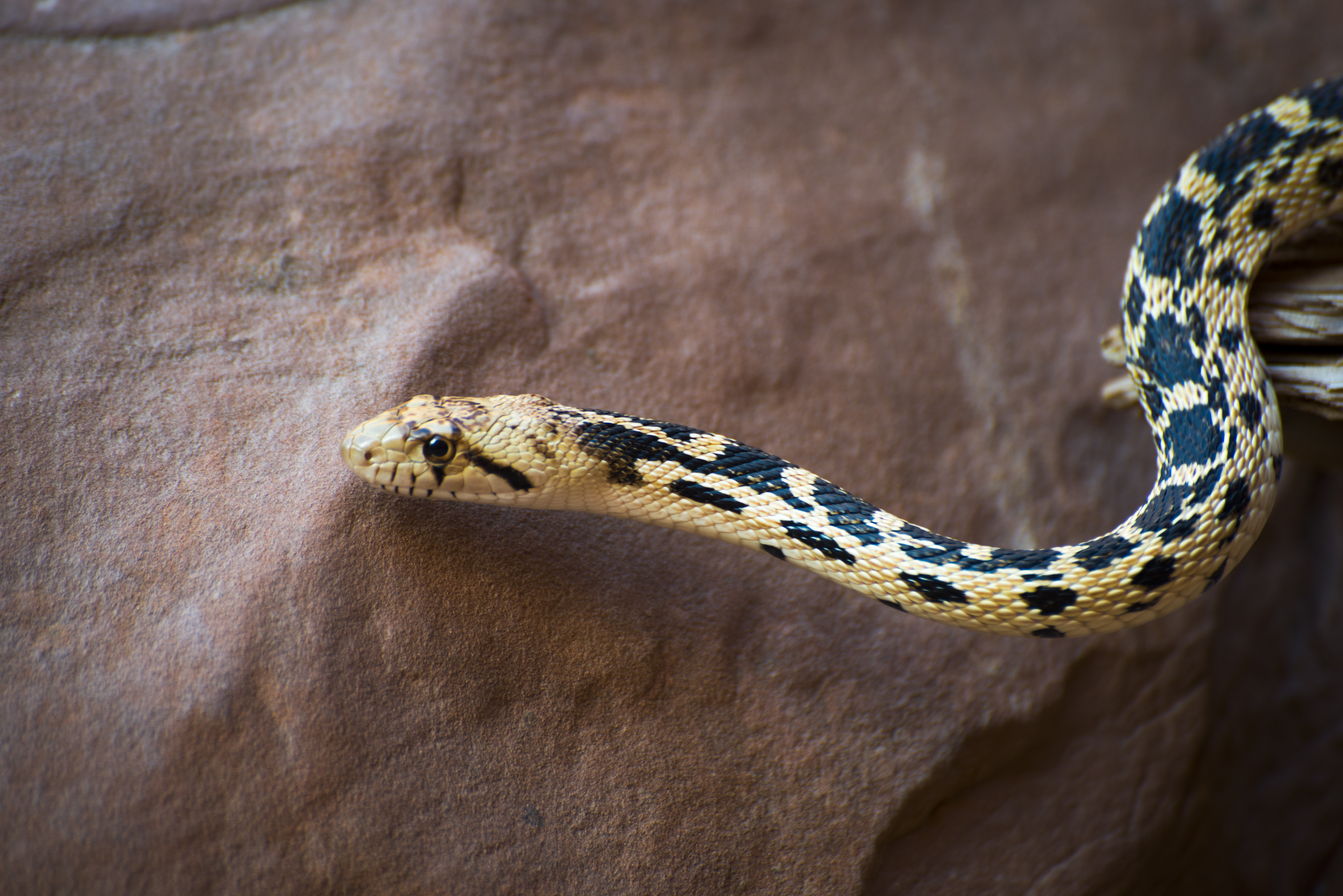 (NPS photo by Neal Herbert)